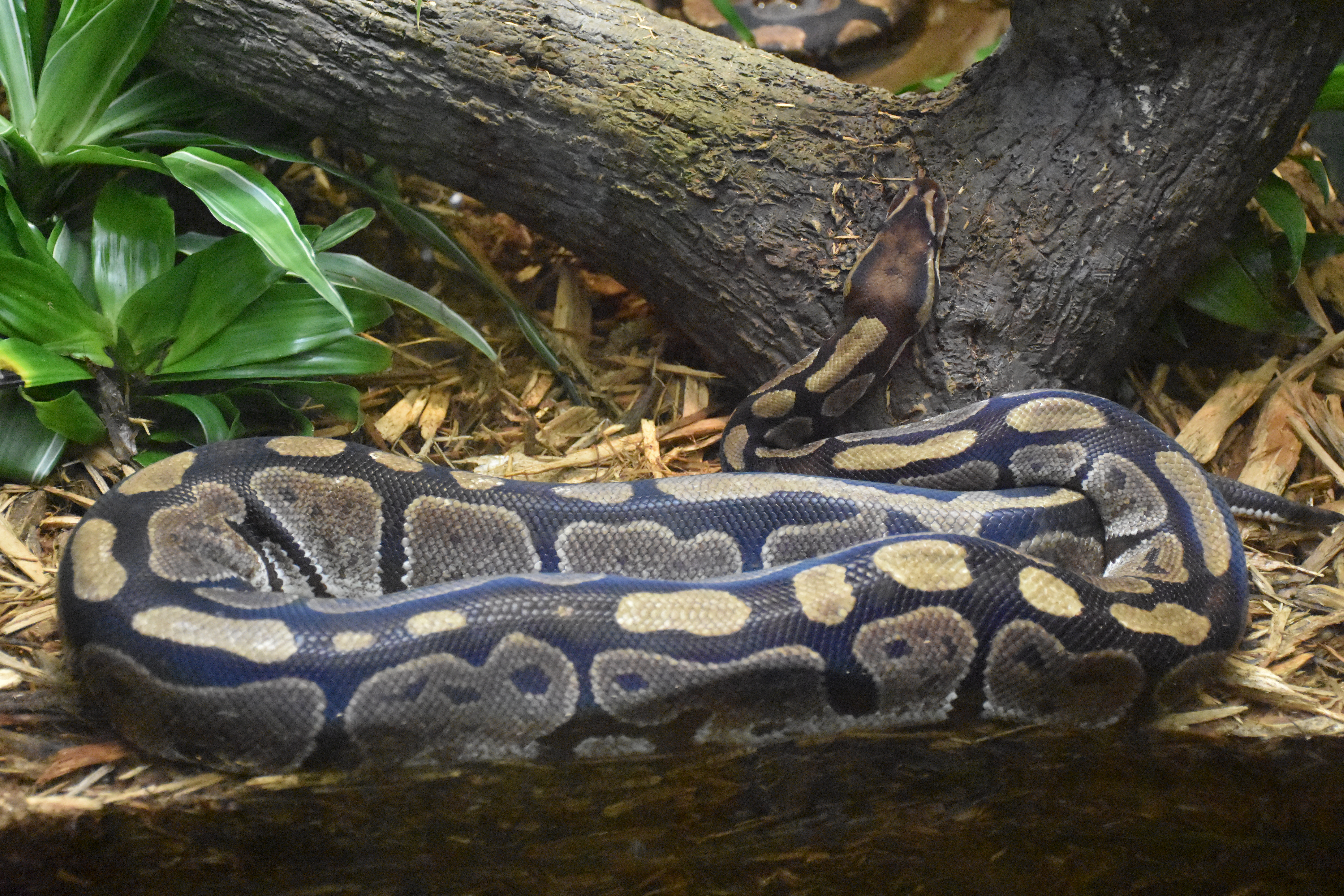 A ball python in the Bronx Zoo, September 2016.